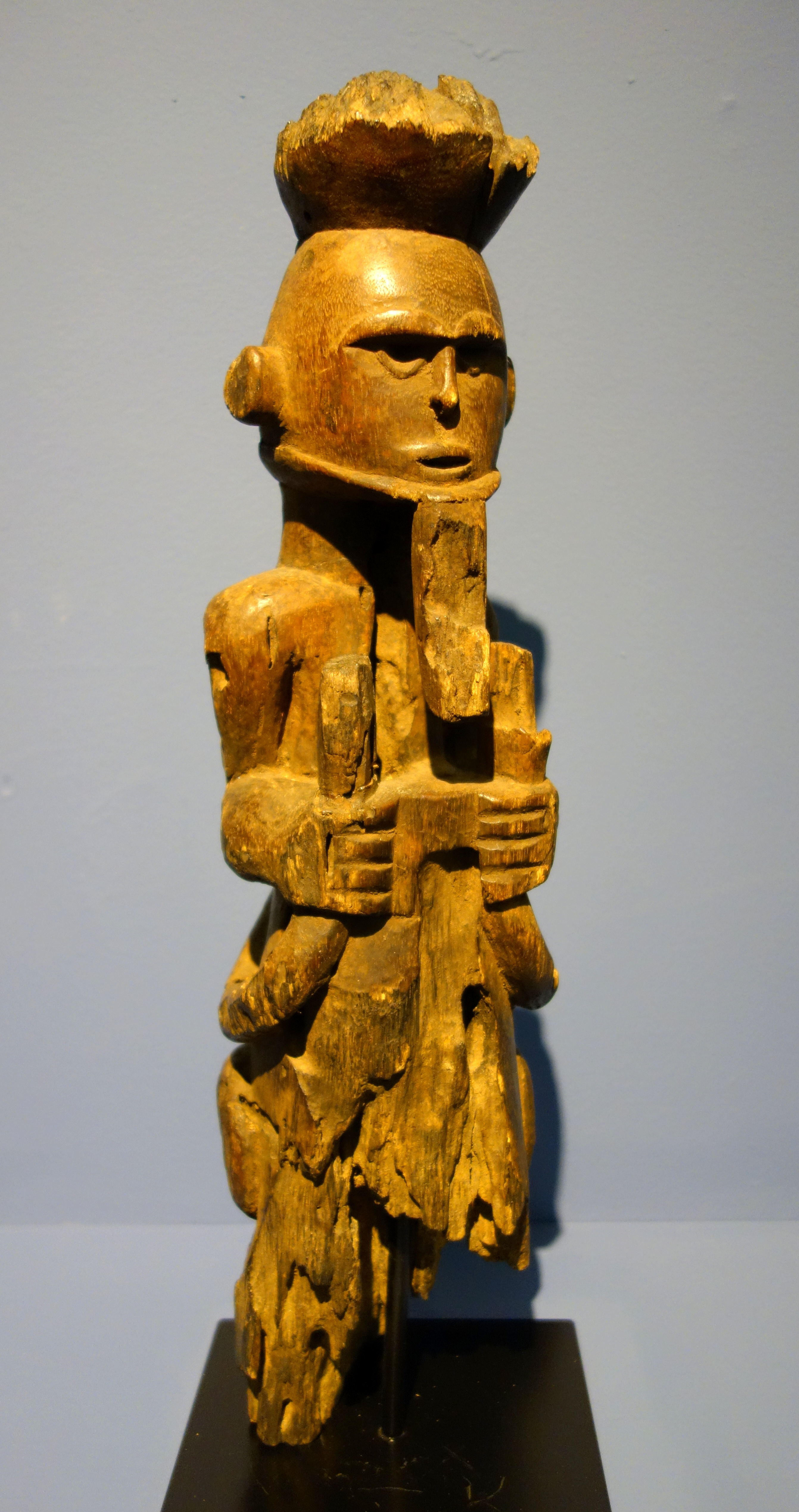 Exhibit in the Fitchburg Art Museum, Fitchburg, Massachusetts, USA. This artwork is old enough so that it is in the public domain.